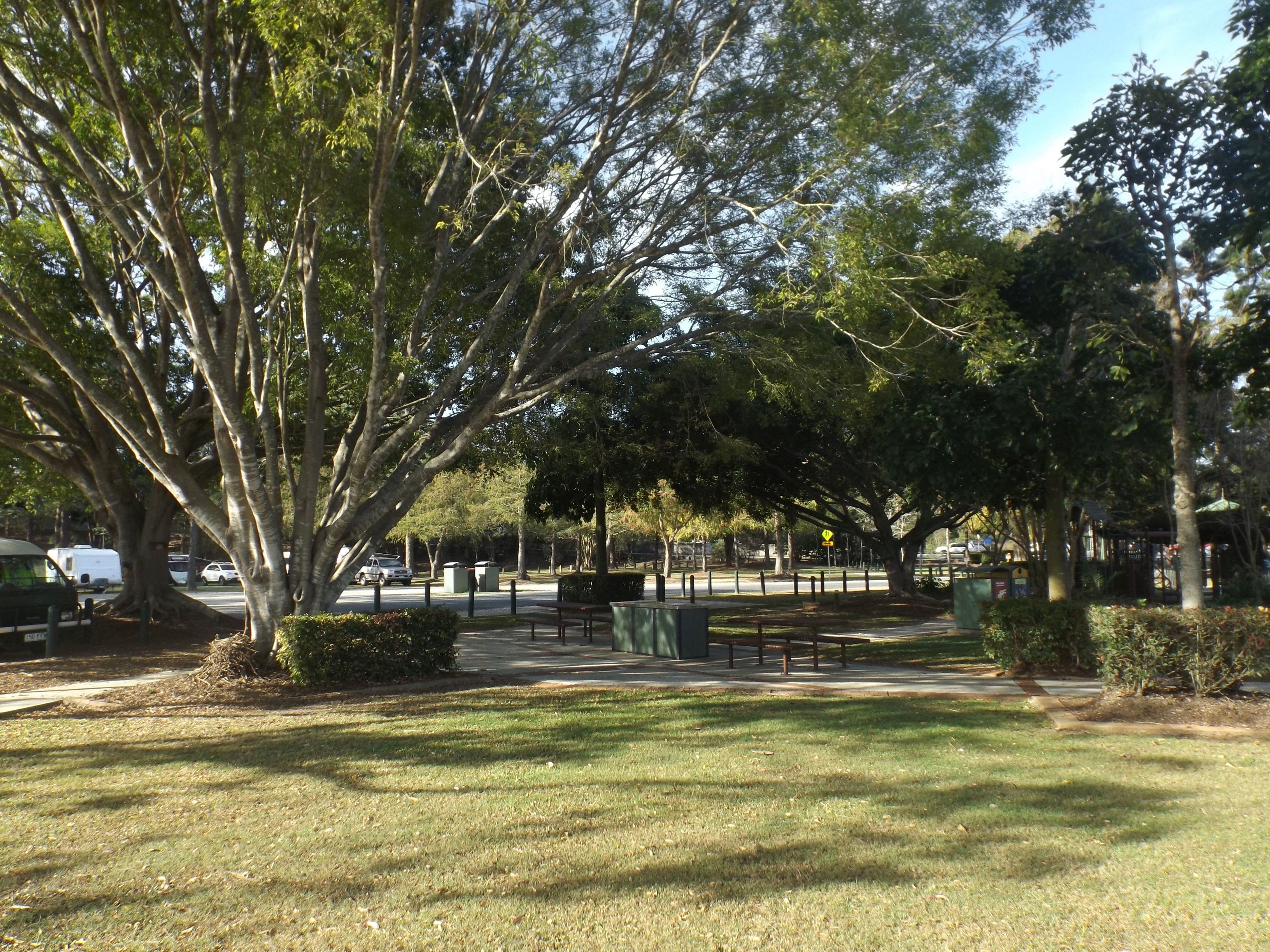 Photo of Petrie Road Rest Area at Petrie, Moreton Bay Region, Queensland, Australia.